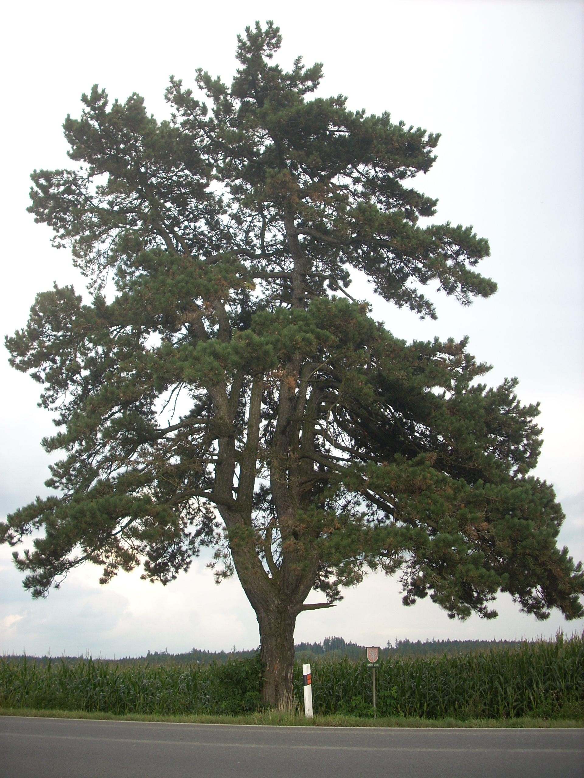 Old pine-tree near by Filipovské Chaloupky (part of Dobronín) - famous tree